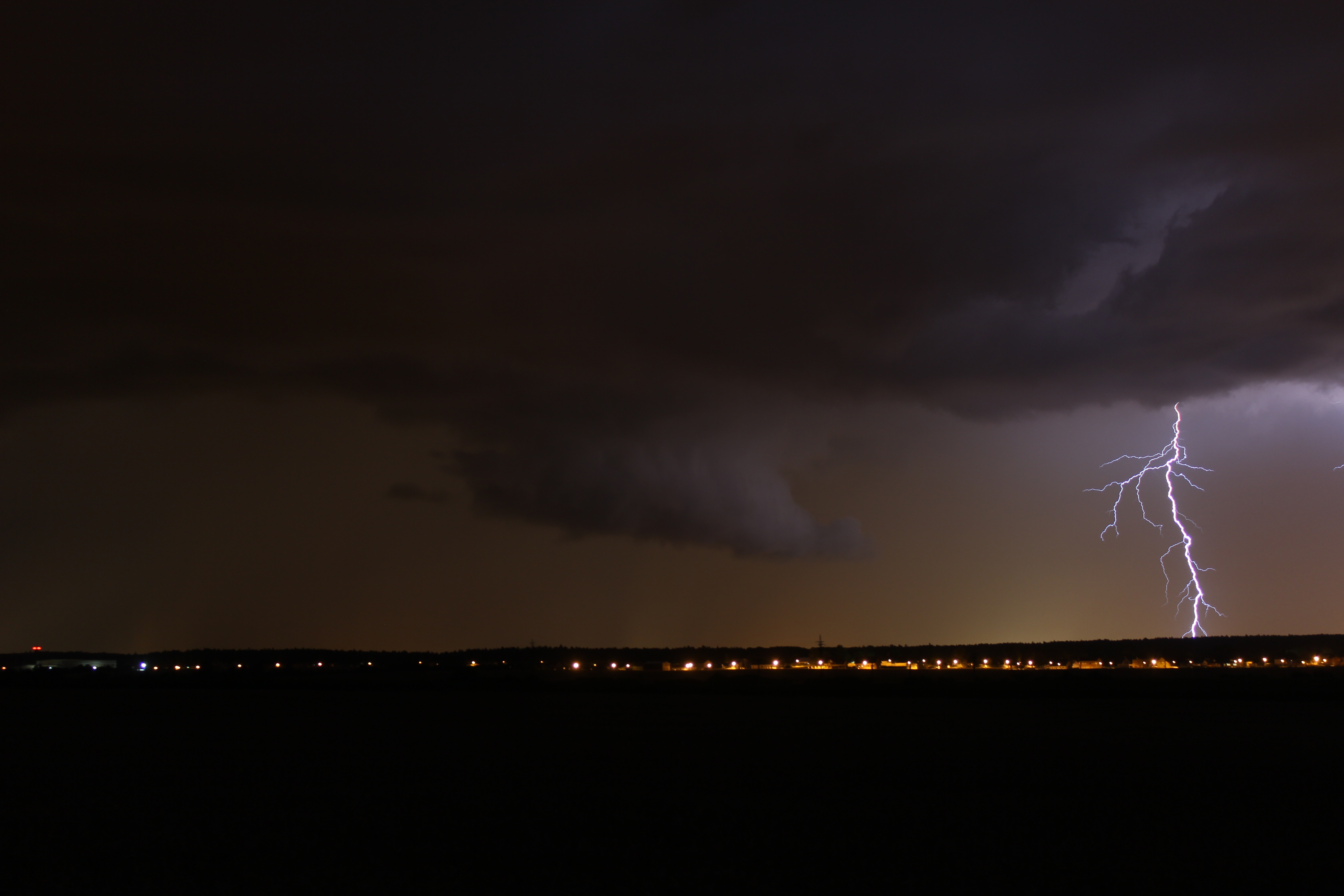 Wall cloud and CG lightning